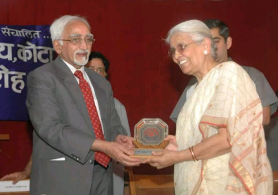 Images